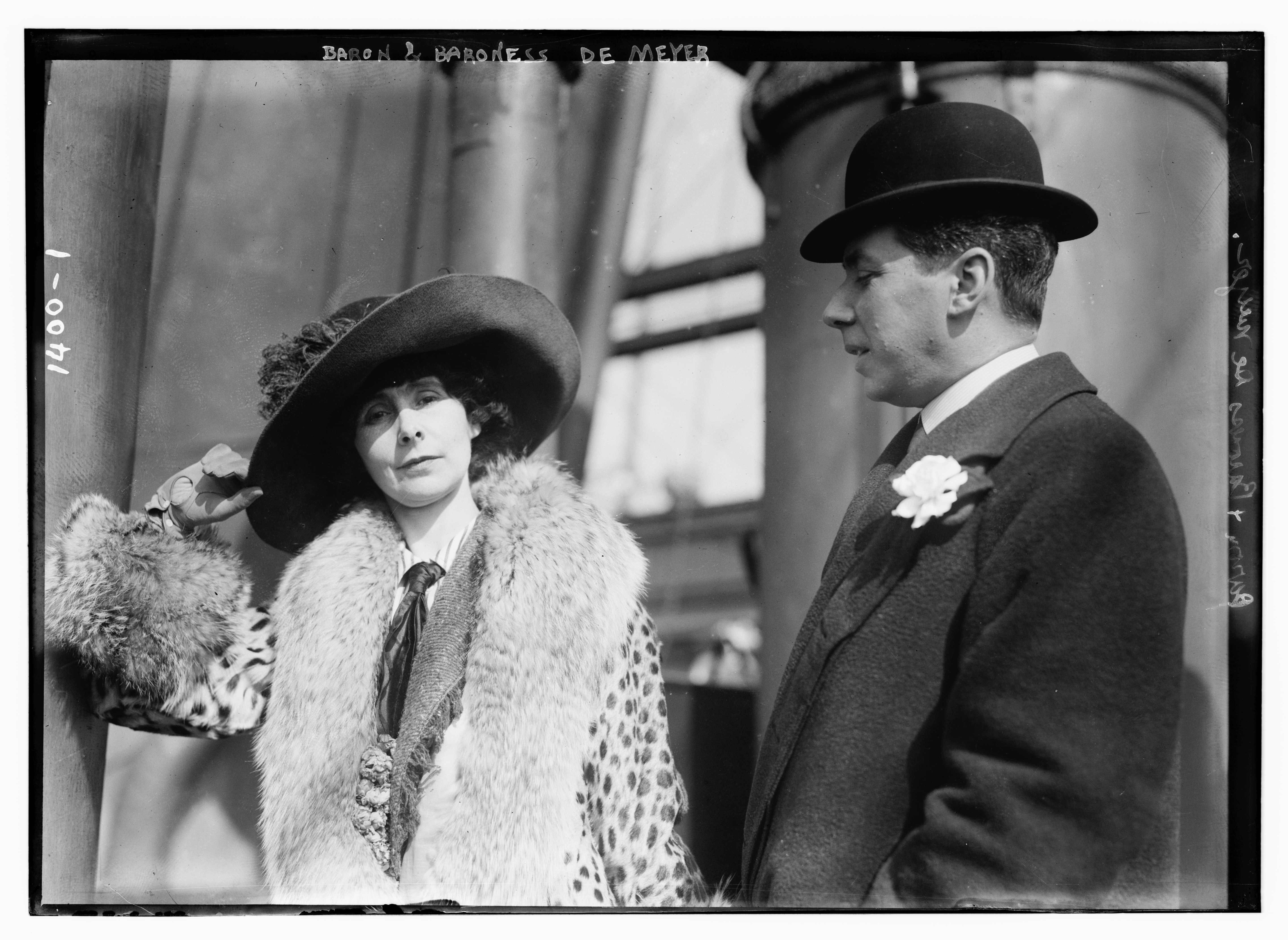 Baron and baroness de Meyer.